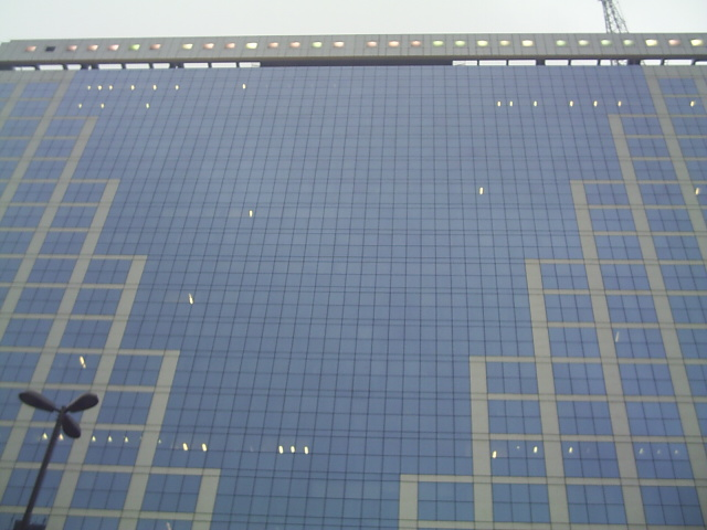 São Luís Gonzaga Building, in São Paulo City.